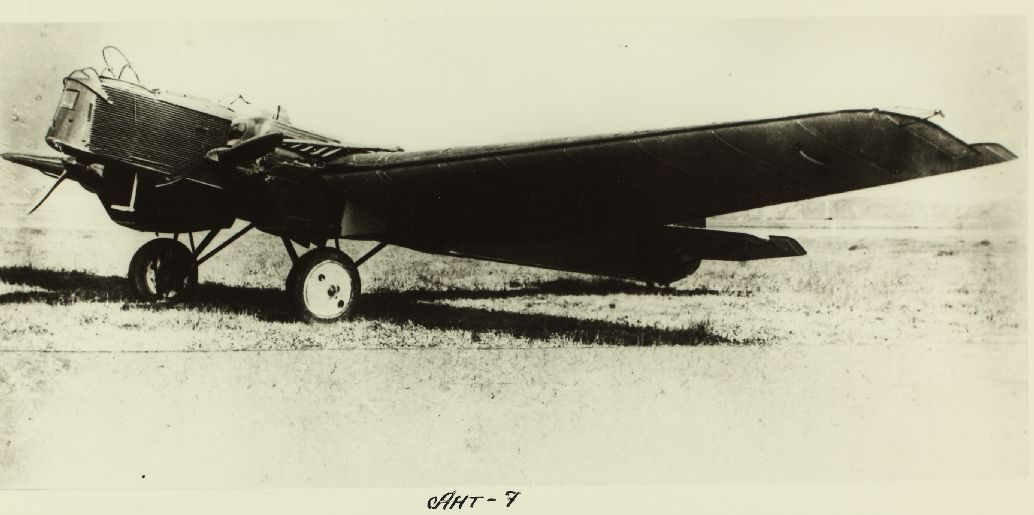 R-6 Soviet reconnaissance aircraft 1929